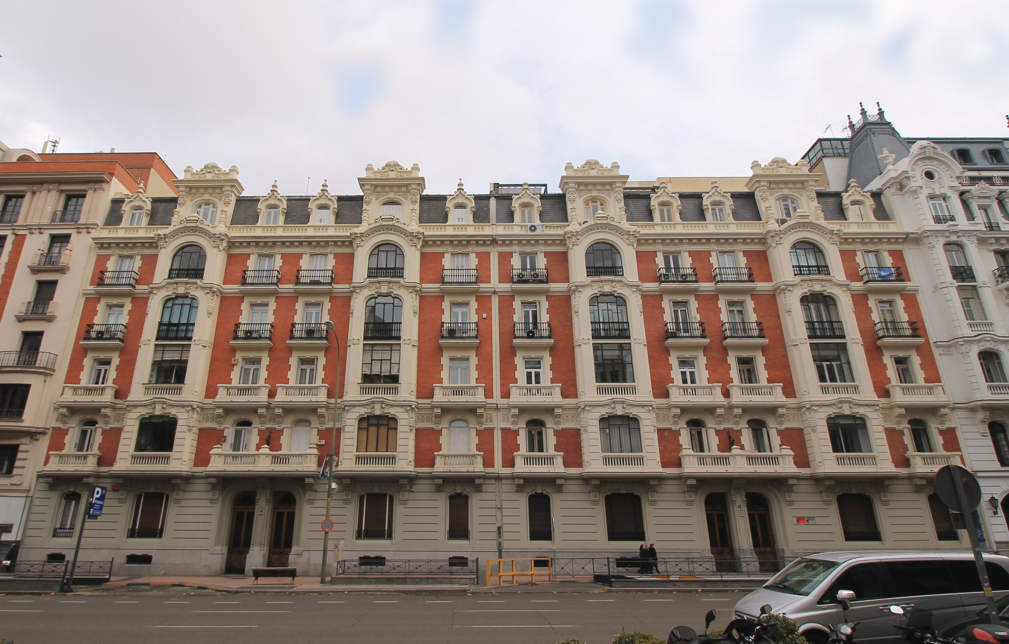 Housing at 14-16 Calle de Velázquez (street) in Salamanca district in Madrid (Spain). It was designed in 1912 by Jerónimo Mathet and built between 1913 and 1916.